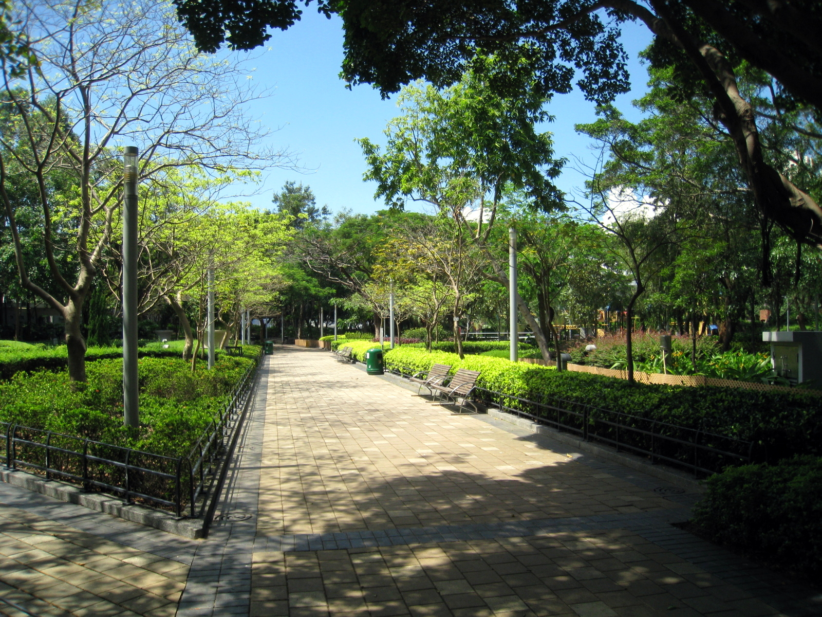 HK Victora Park Path 2008 維多利亞公園